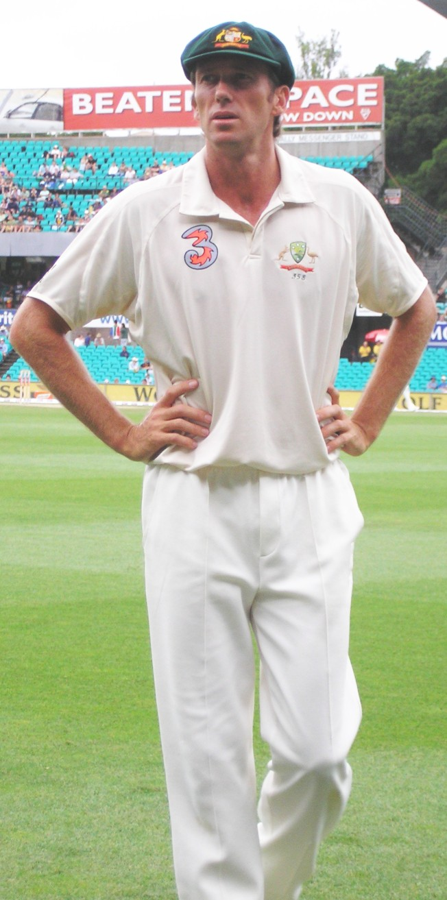 Glenn McGrath. Sydney Cricket Ground, Australia v South Africa, 5 Jan 2006.